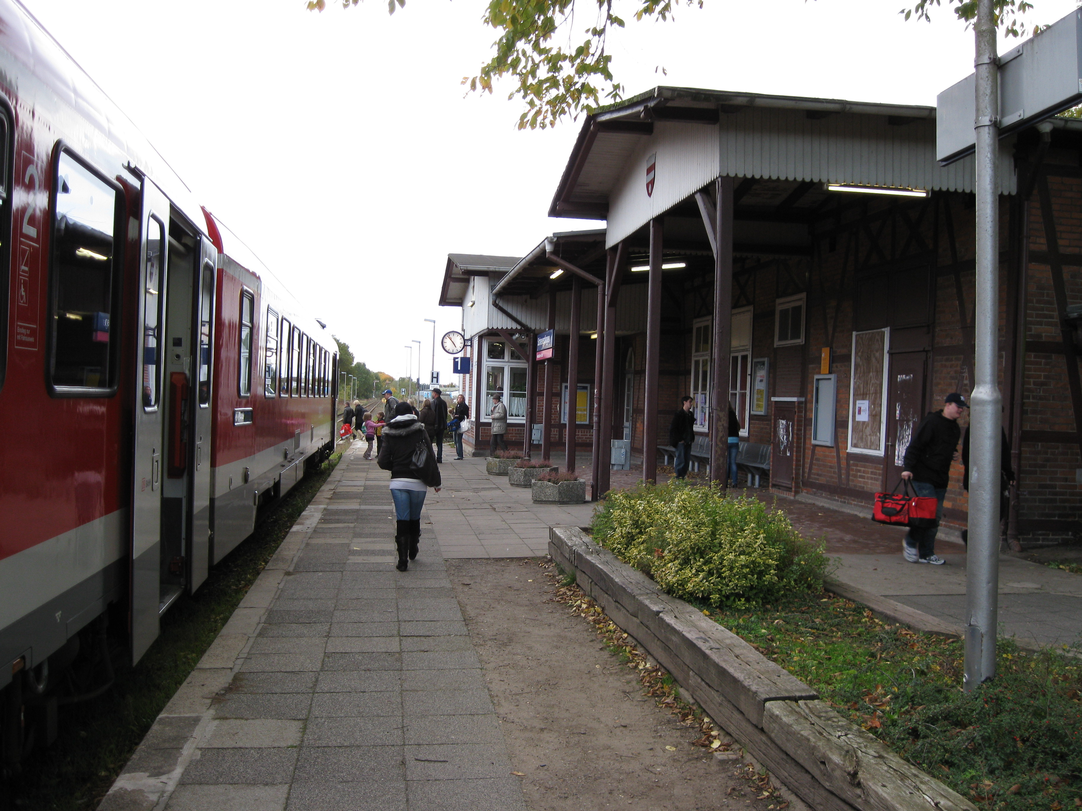 Schneverdingen Station, Germany